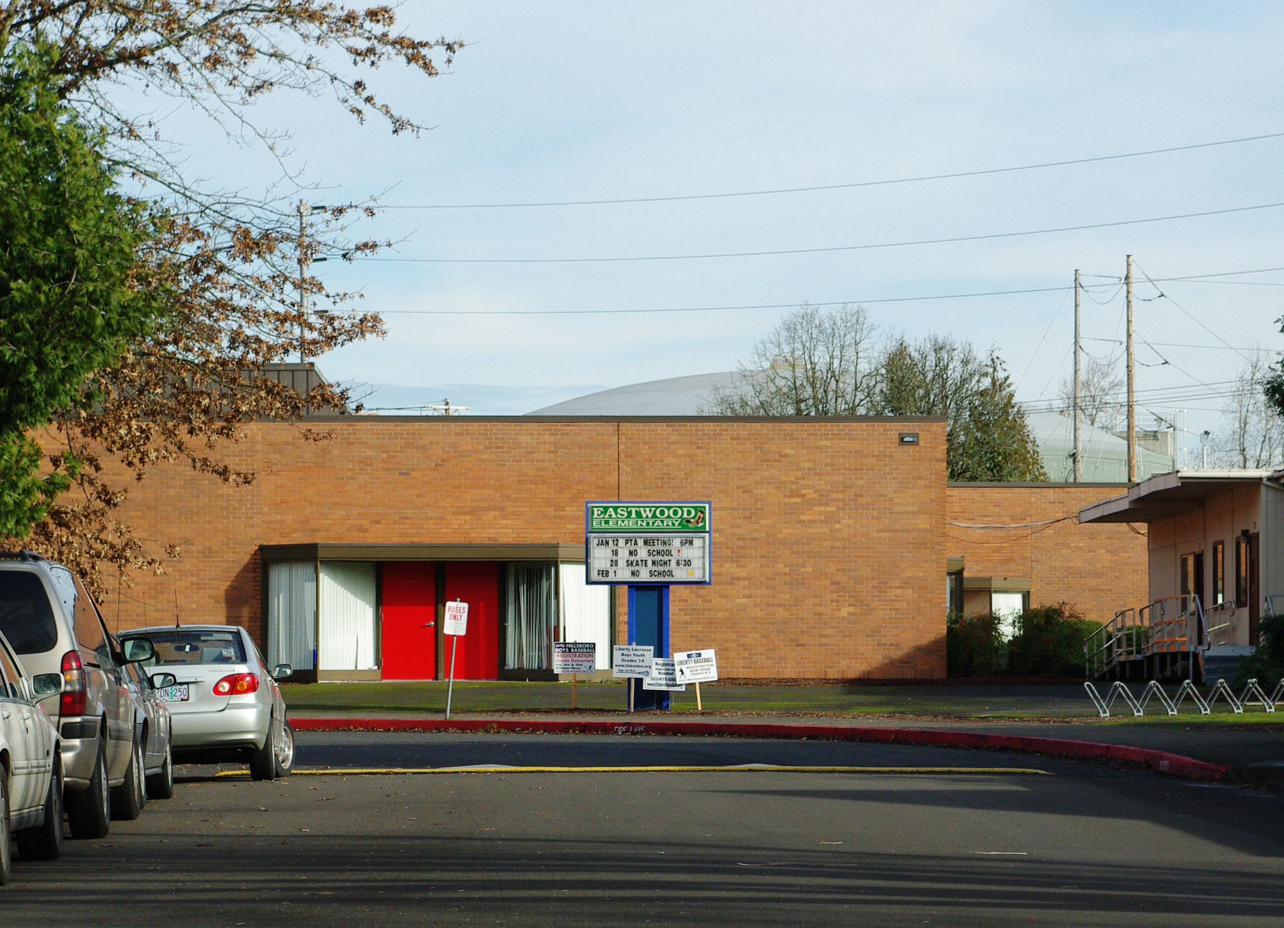 Eastwood Elementary School in Hillsboro, Oregon, USA. Part pf the Hillsboro School District.